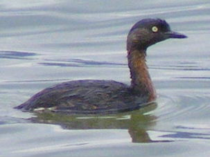 New Zealand Dabchick, Lake Rotorua